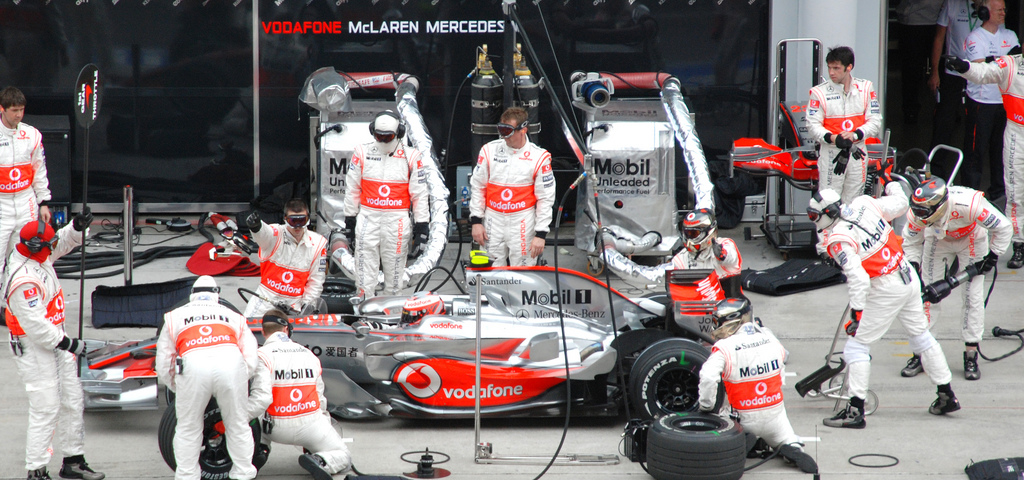 Heikki Kovalainen making a pitstop in qualifying for the 2008 Malaysian Grand Prix